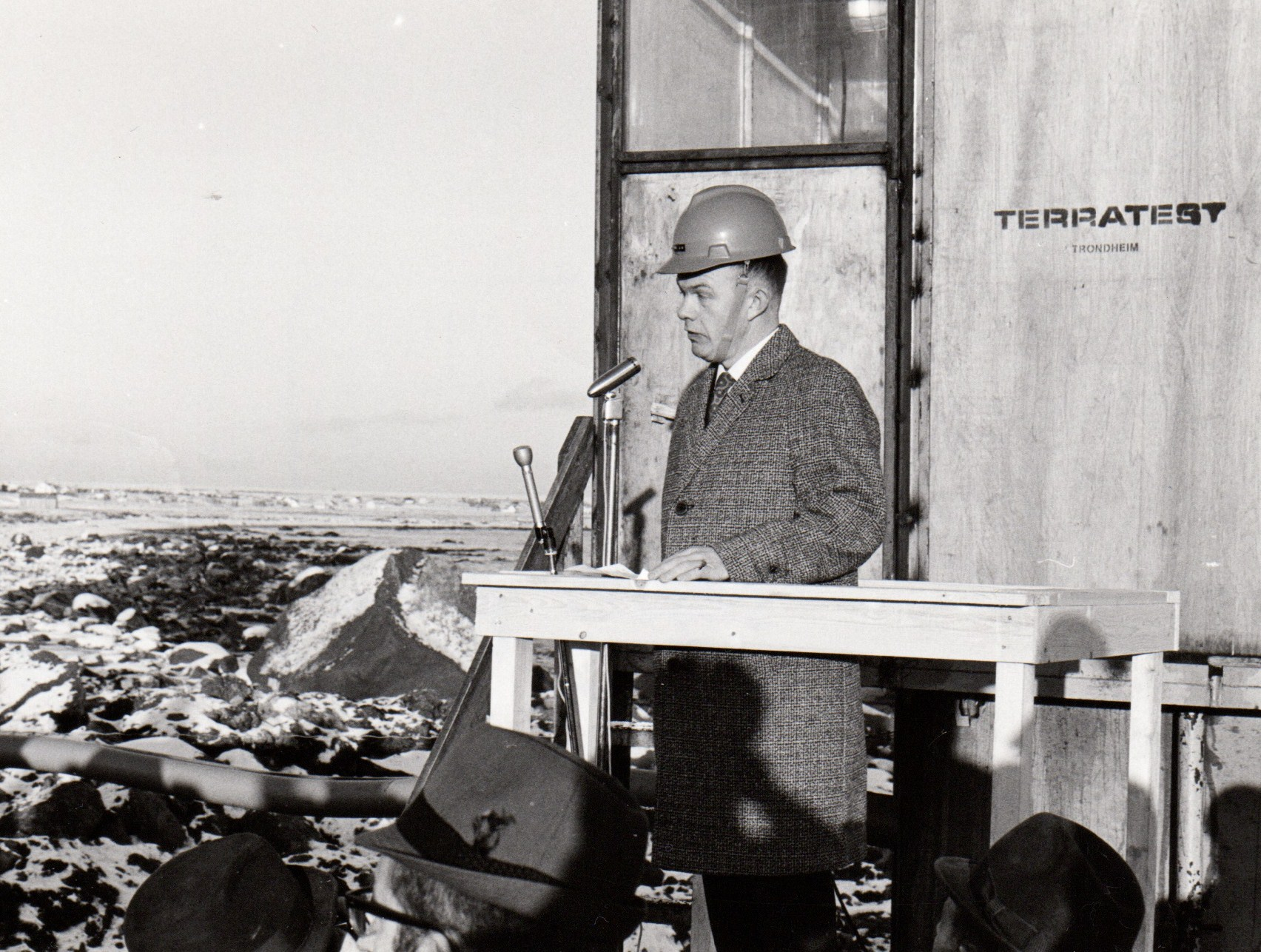 Chairman of Norminol, Odd Sigvald Olsen, opens the search for oil and gas at Andøya. Early 1970's.